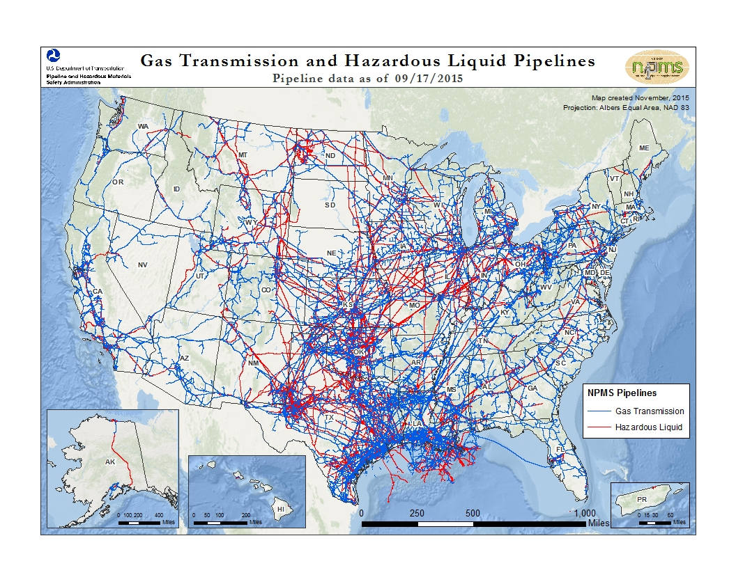 Gas Transmission and Hazardous Liquid Pipelines in the United States, created November 2015 with data from September 17, 2015 National Pipeline Mapping System, by the Pipeline and Hazardous Materials Safety Administration (PHMSA), part of the United States Department of Transportation.